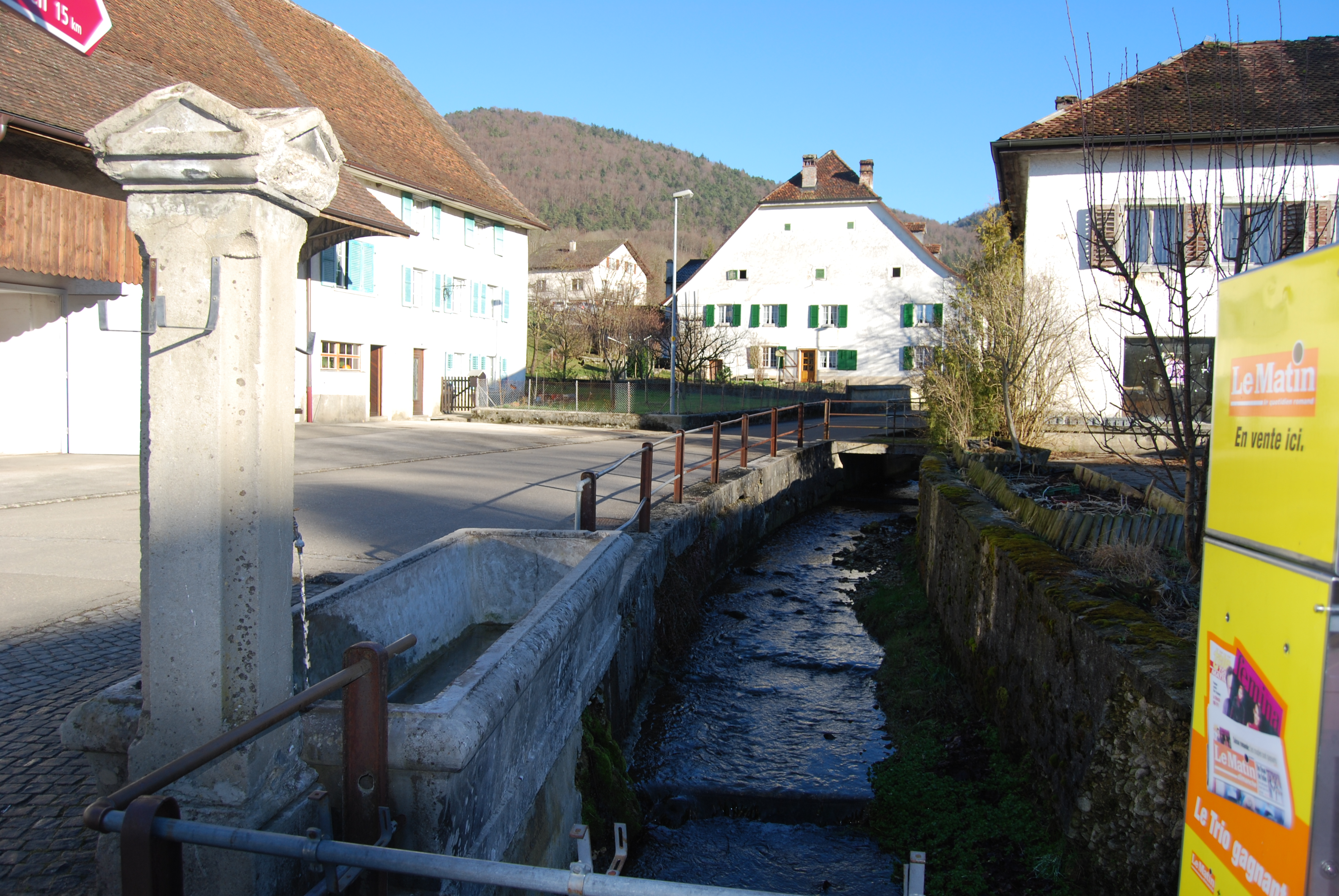 Montsevelier Stream, tributarian of Scheulte, canton of Jura, SwitzerlandEsperanto: Rivereto de Montsevelier, alfluanto de Scheulte, Kantono Ĵuraso, Svislando